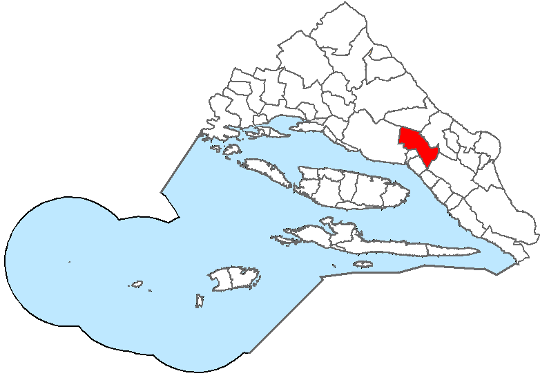 Position of Šestanovac municipality inside Split-Dalmatia County